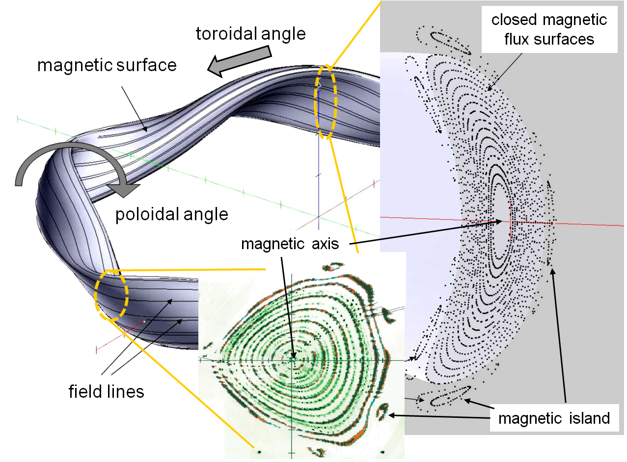 Flux surface of a toroidal magnetic plasma confinement experiment using a Wendelstein-7-X magnetic configuration as an example. Right: Banana shaped cross section showing the intersection points of magnetic field lines (so called "Poincare plot") forming nested flux surfaces around the magnetic axis. Separate island structures occurring outside the confinement region are also shown. Bottom: flux surface measurement showing the intersection points of an electron beam with a fluorescent medium placed in a more triangular shaped plane. Measurement in false colour taken from Wendelstein 7-AS.